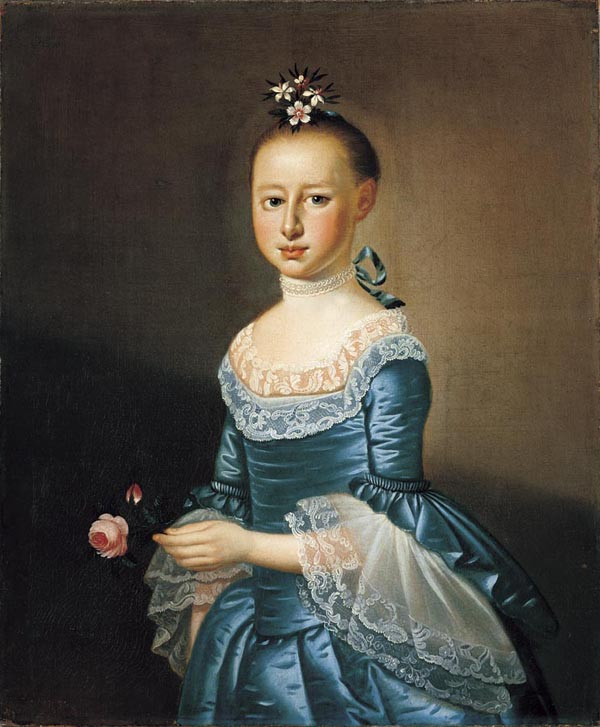 Portrait of the young Dart from Charleston, South Carolina, by Swiss-American painter Jeremiah Theus. Courtesy of the Museum of Early Southern Decorative Arts, Old Salem.